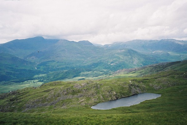 Llyn Y Biswail from Cnicht summit ridge Snowdon range in the background to the left.